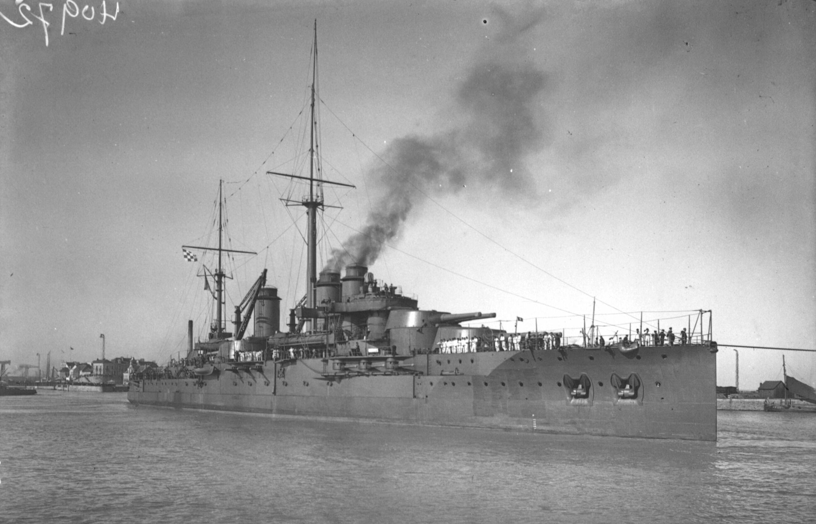 The battleship France in 1914.